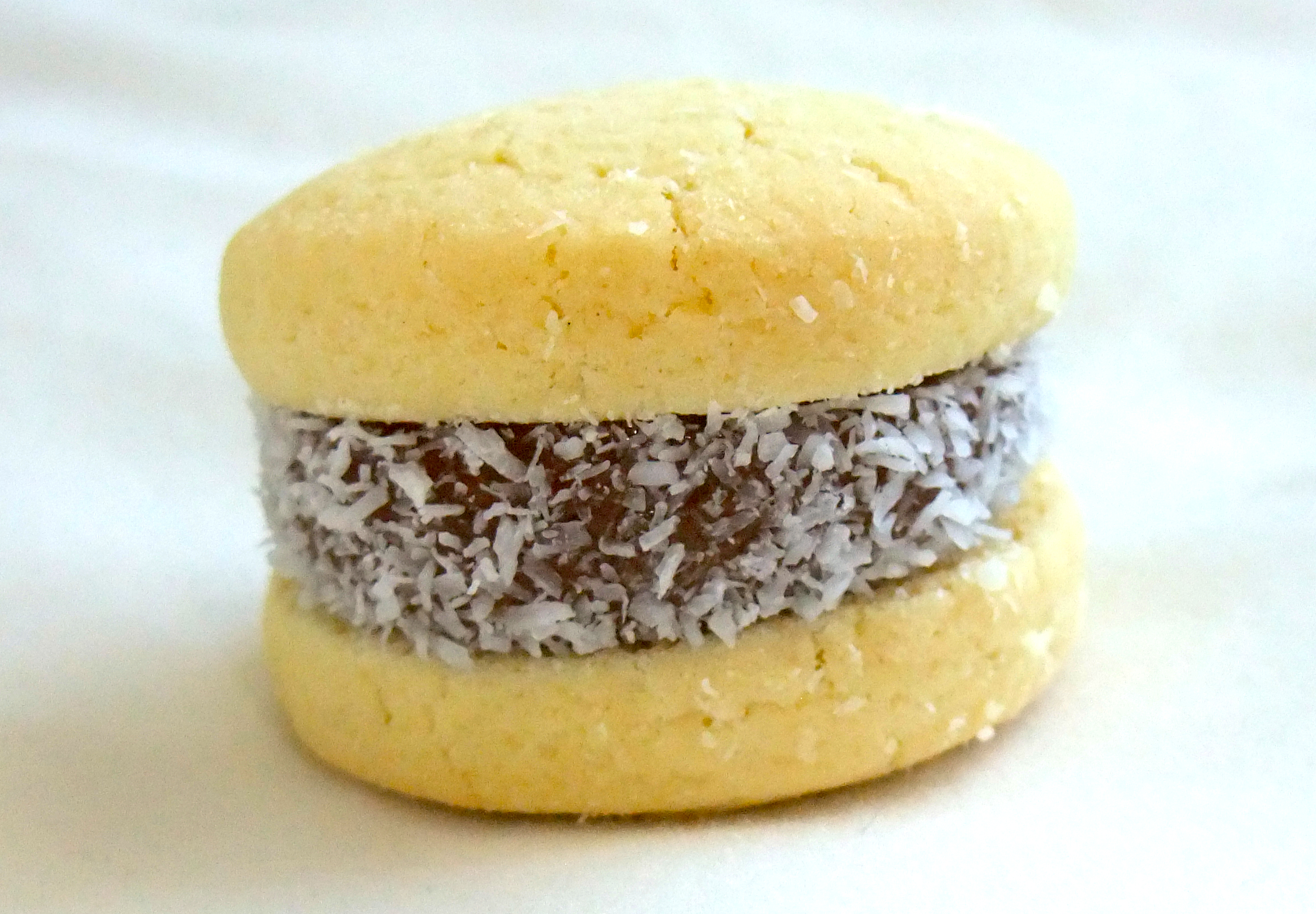 An Argentine-style alfajor, composed of dulce de leche sandwiched between two soft vanilla-and-lemon-flavored cookies with a sprinkling of finely-shaved coconut